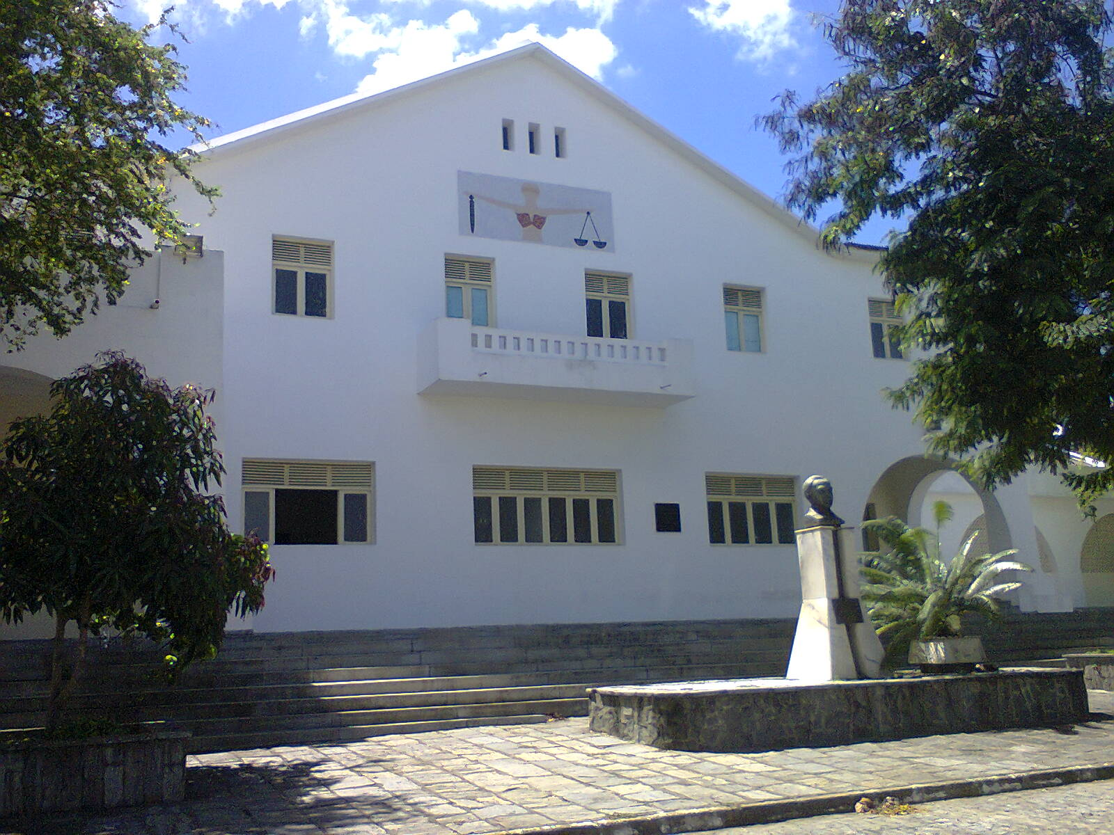 Law school of the Center for Legal Studies of the State University of Paraíba, Campina Grande campus.